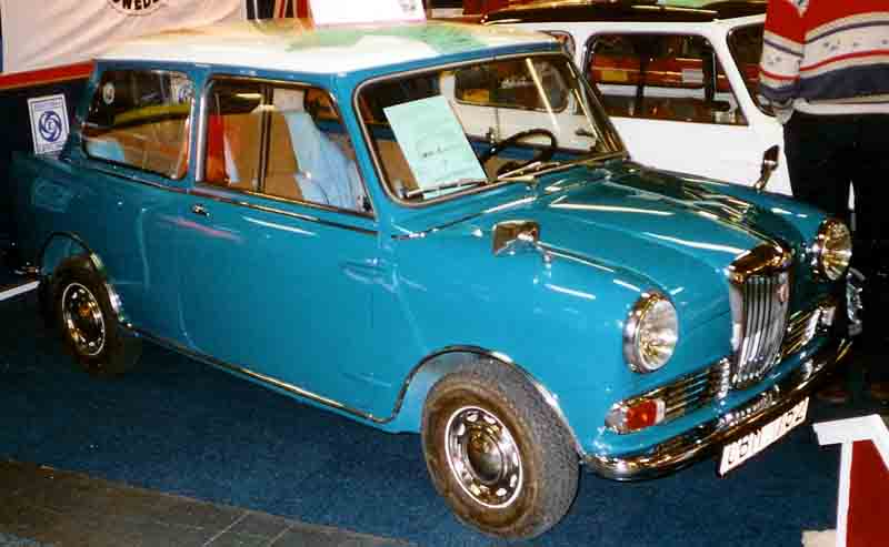 Riley Elf 1962